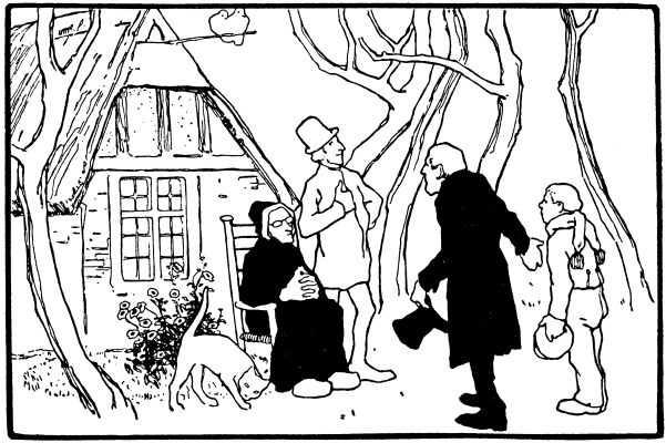 Illustration by Otto Ubbelohde to the fairy tale The Thief and His Master